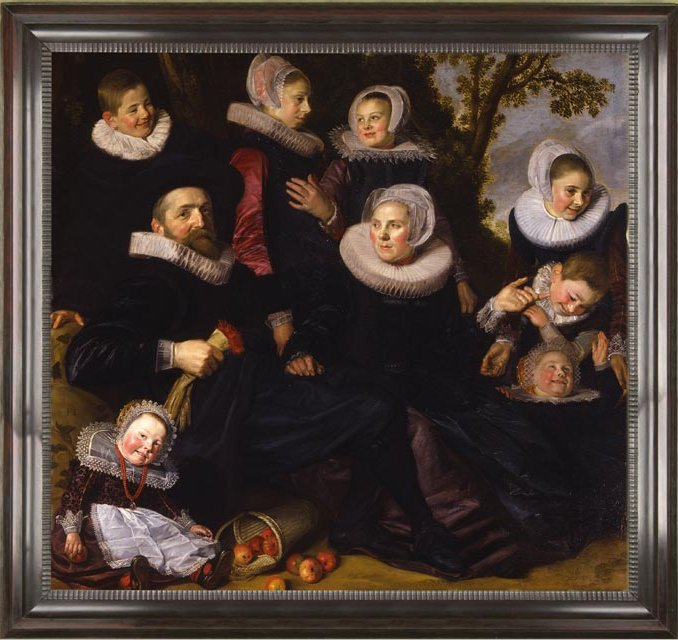 left half of larger canvas, with baby lower left added by Salomon de Bray in 1628